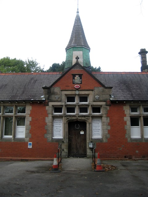 Poynton Community Centre, Poynton, Cheshire, England